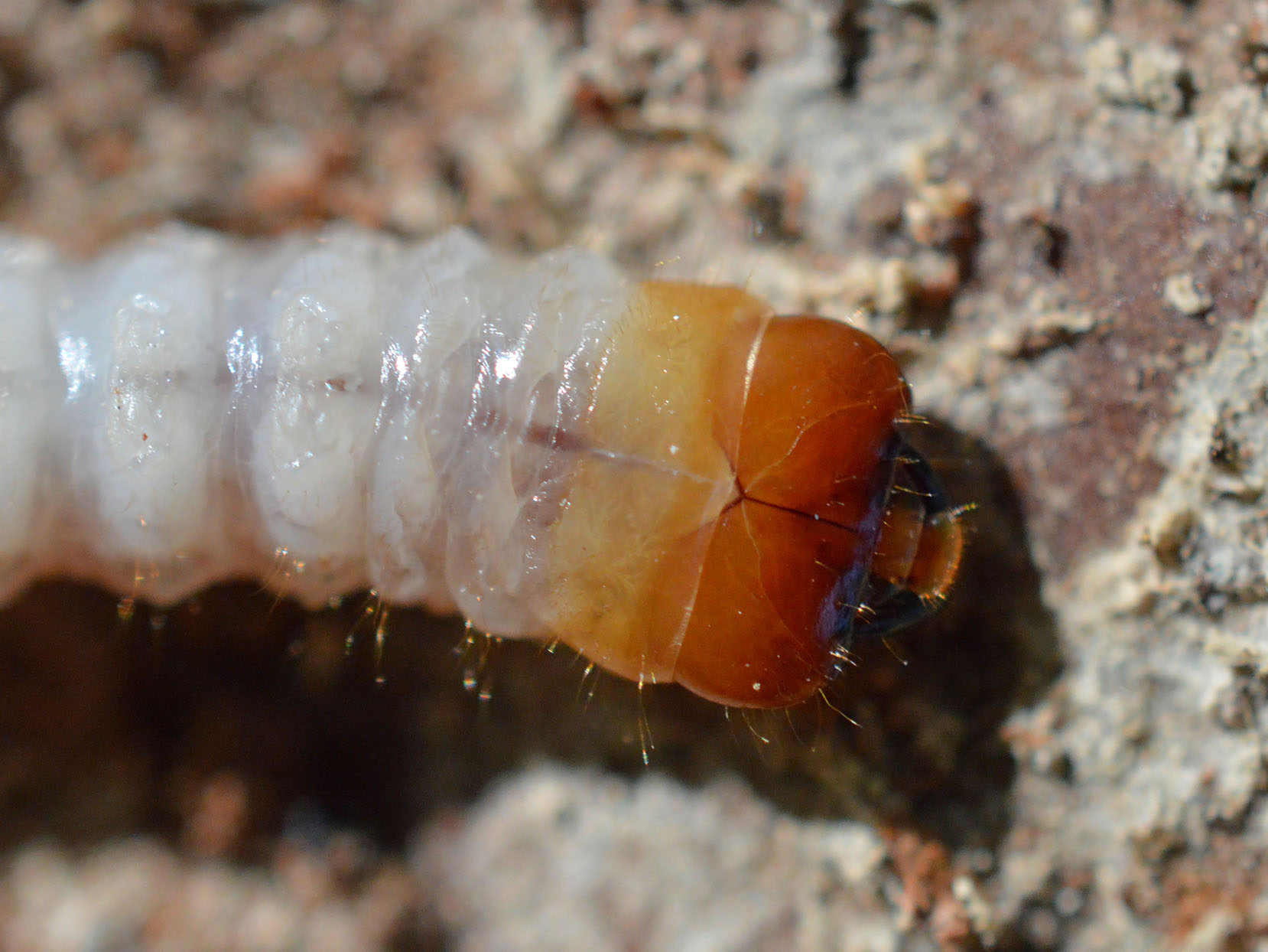 Larva of Rhagium inquisitor found on a coniferous tree at 900 m a.s.l. near Botevgrad, Bulgaria.